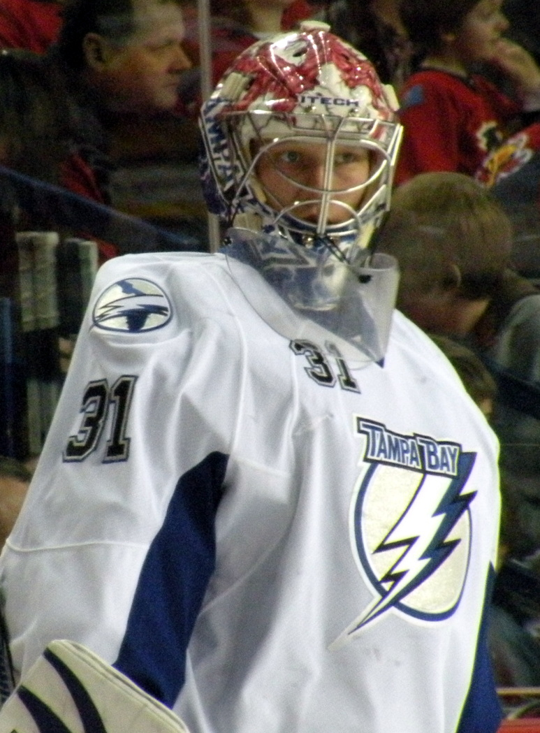 Karri Ramo of the Tampa Bay Lightning warming up prior to a game against the Calgary Flames in Calgary.